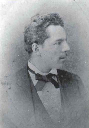 Marika I. Pirie. Carte-de-visite.